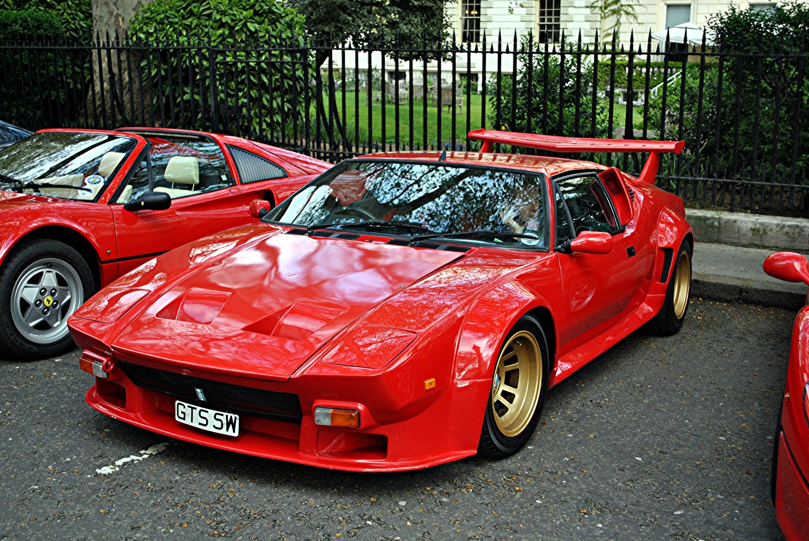 De Tomaso Pantera GT5, pictured in London